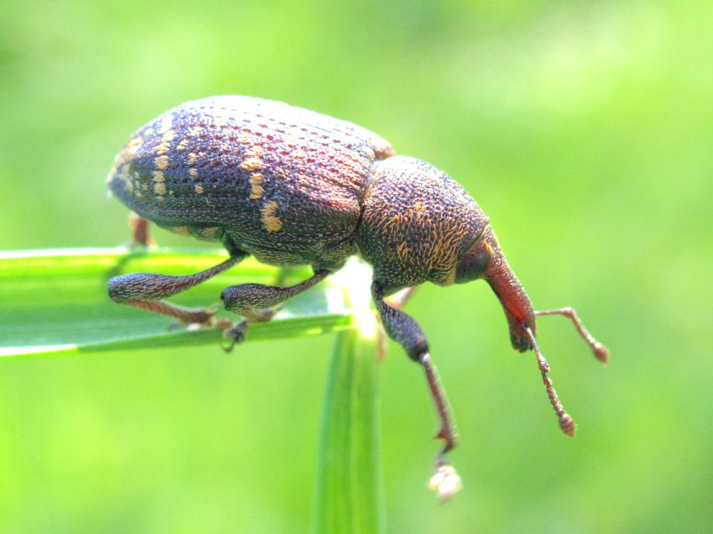 Name: Hylobius abietis. Family: Curculionidae. Location. Münster, NRW, Germany